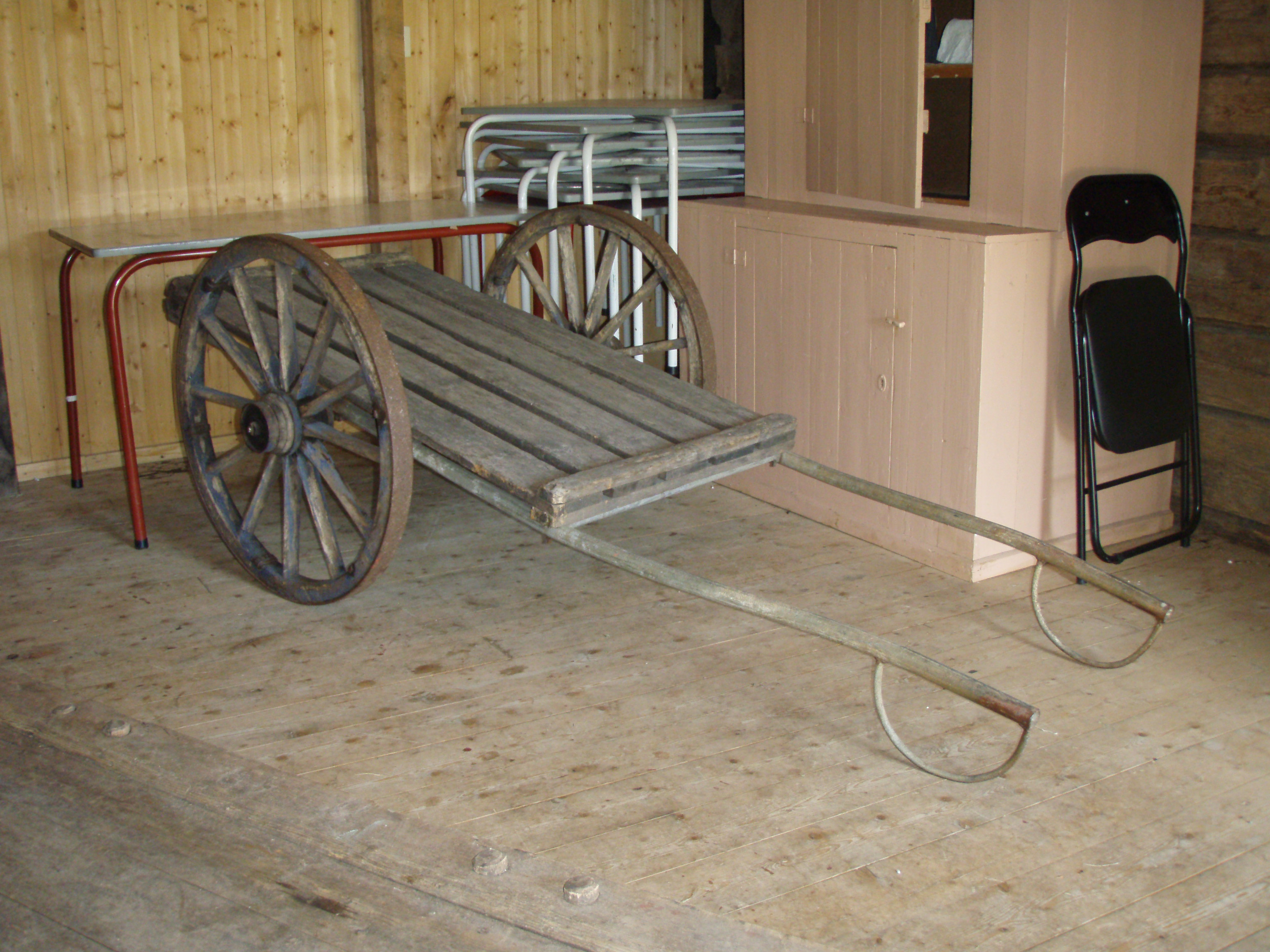 Hand-driven cart